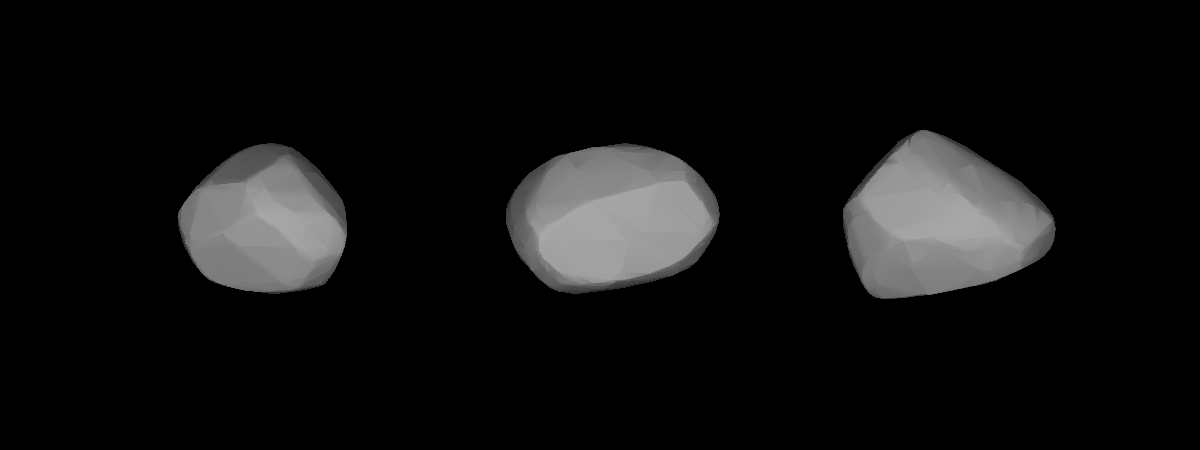 A three-dimensional model of 436 Patricia that was computed using light curve inversion techniques.